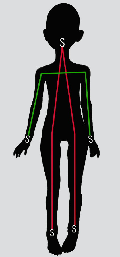 String system of a Ball Jointed Doll